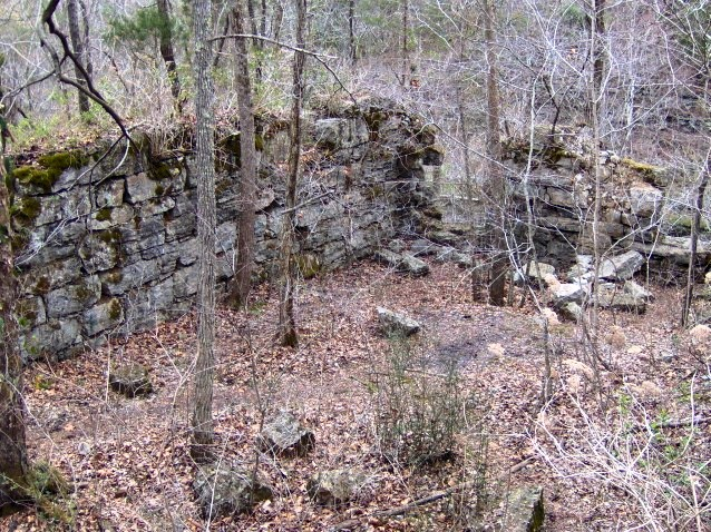 The ruins of the Stone Fort Paper Company mill on the banks of the Duck River (Barren Fork) at Old Stone Fort State Park, in Manchester, Tennessee (Southeastern U.S.). The mill was built in 1879, and made use of a particularly rapid stretch of the river in the vicinity of Big Falls and Blue Hole Falls. The foundation can be seen along the Old Stone Fort Loop Trail.